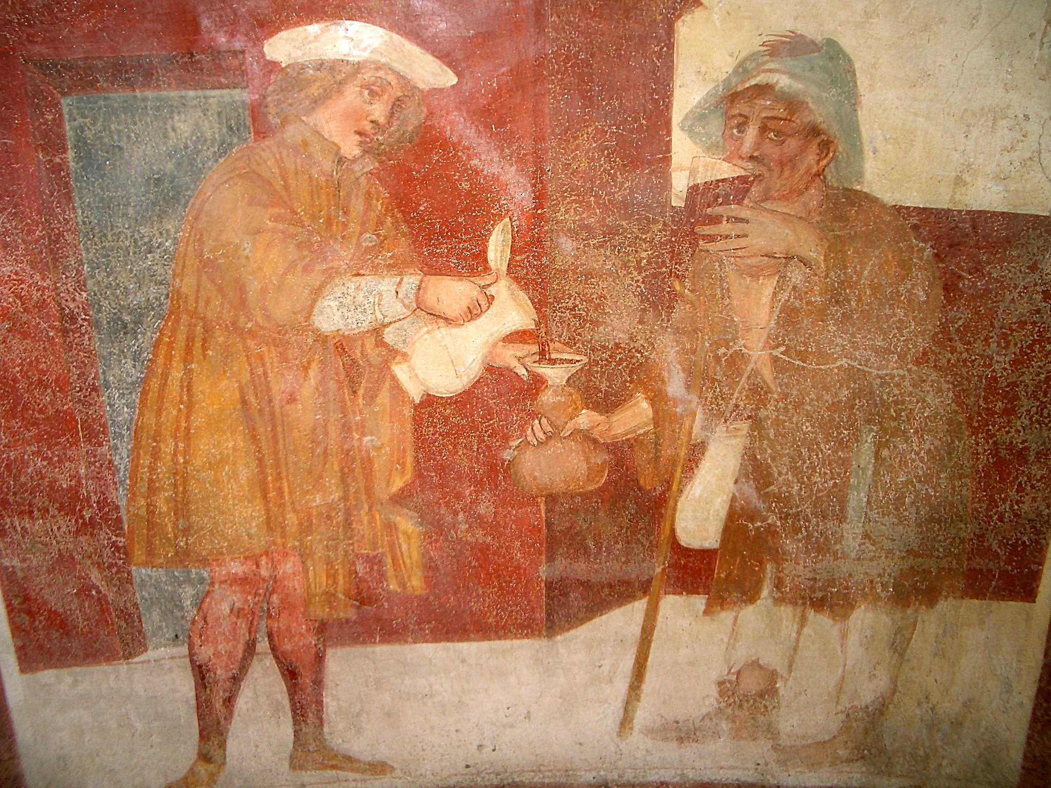 Sperindio Cagnola, Works of Mercy (Give drink to the thirsty), fresco, 1514 -24, Paruzzaro, San Marcello Church